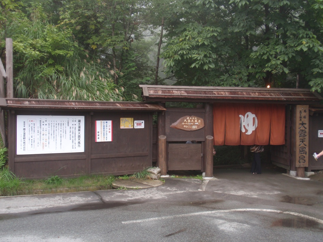 Zaou spa entrance gate, yamagata